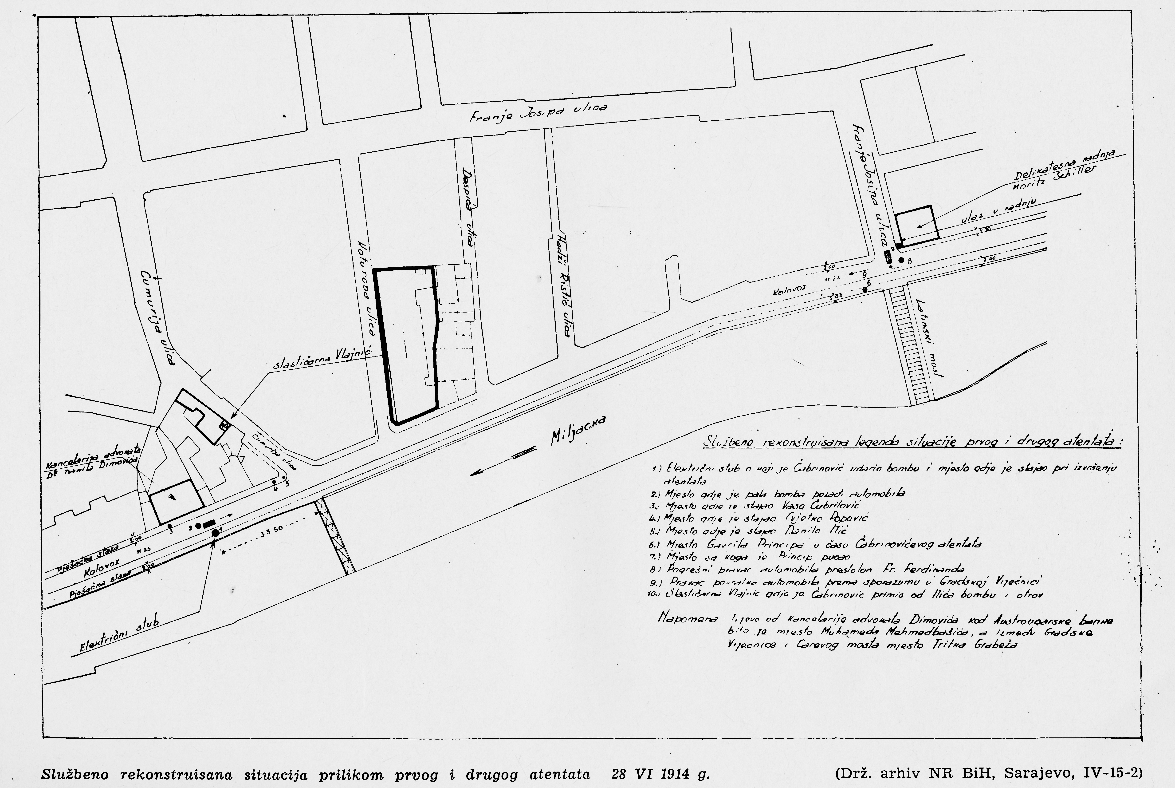 Official report of the incidents in June 28, 1914.